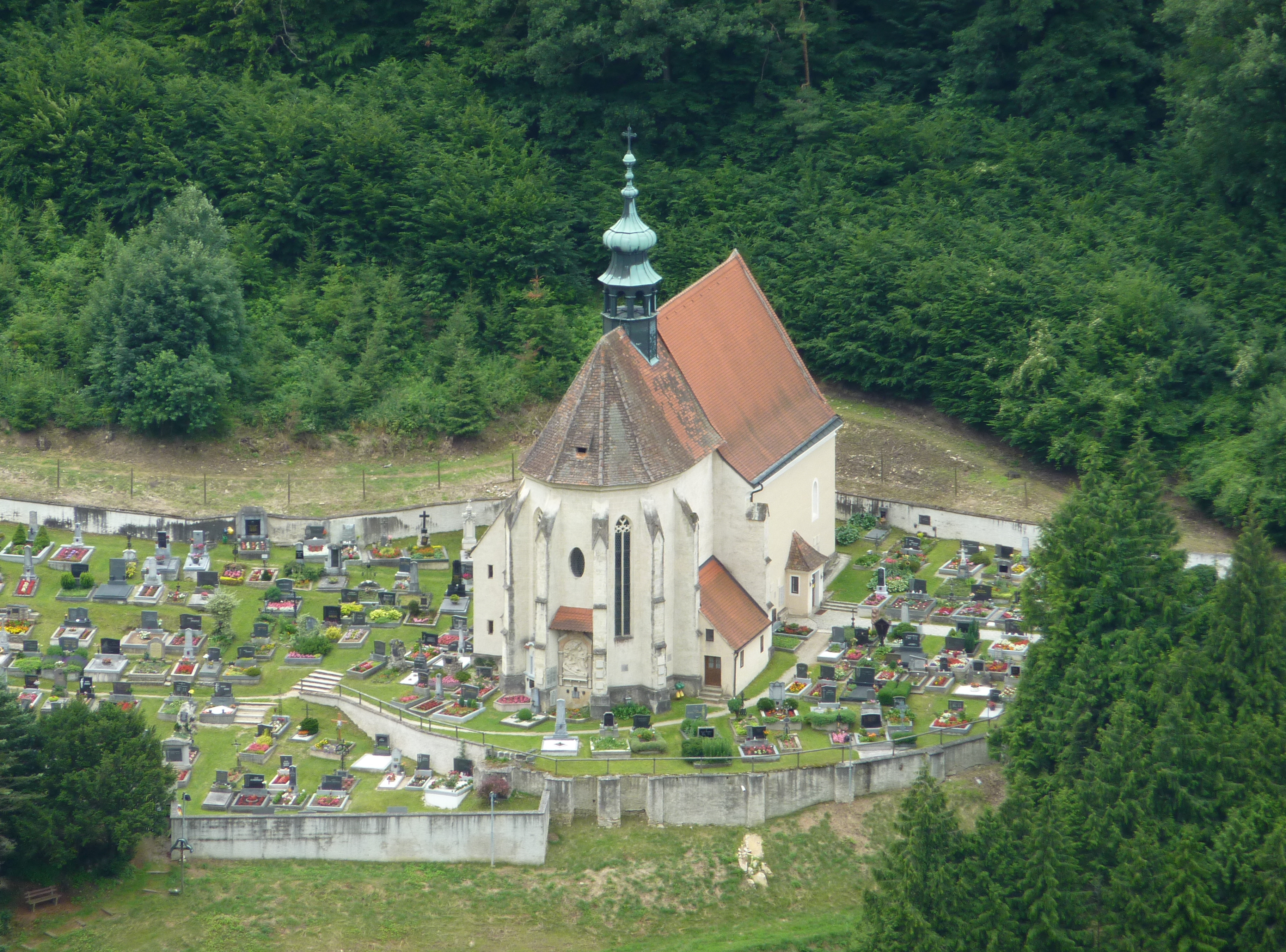 Church in Kleinwien (Furth bei Göttweig) in Lower Austria; view from Stift Göttweig